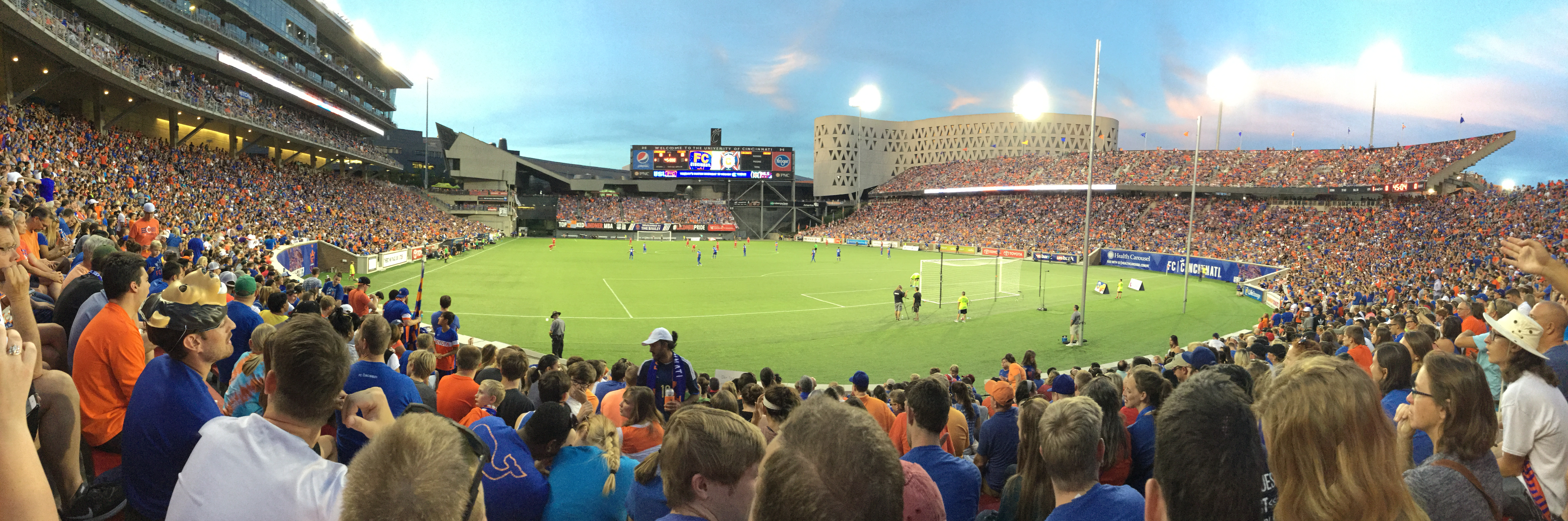 USL side FC Cincinnati hosts the Chicago Fire from MLS in the 2017 US Open Cup on June 28, 2017 at Nippert Stadium